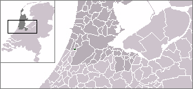 Locator map of Dutch municipalities in Noord-Holland (LocatieBennebroek.png)